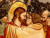 The disciple on the left, who wounds a soldier with his knife, is Saint Peter.